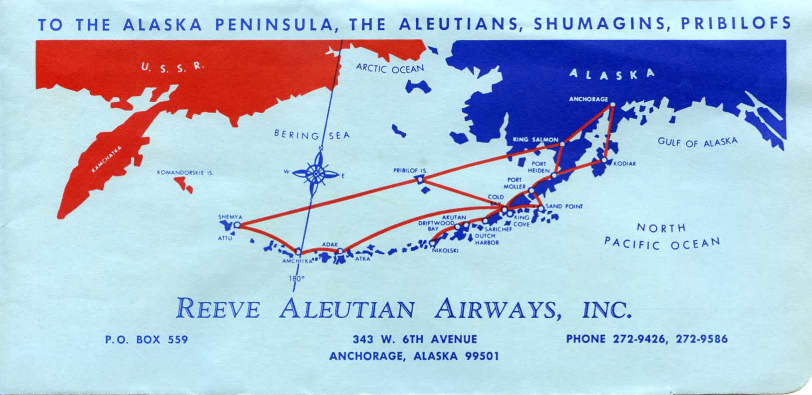 United States of America, Reeve Aleutian Airways route map in 1972.